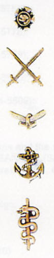 Ribbon bar emblem of the Bar and active service Arm of the Service insignia for the ribbon of the Nkwe ya Boronzi - Bronze Leopard, post-nominal letters NB, awarded to persons who have distinguished themselves by performing acts of bravery during military operations